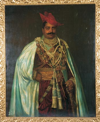 Lieutenant-General H.H. Ali Jah, Umdat ul-Umara, Hisam us-Sultanat, Mukhtar ul-Mulk, Azim ul-Iqtidar, Rafi-us-Shan, Wala Shikoh, Muhtasham-i-Dauran, Maharajadhiraj Maharaja Shrimant Sir Madho Rao Scindia Bahadur, Shrinath, Mansur-i-Zaman, Fidvi-i-Hazrat-i-Malika-i-Mua’zzama-i-Rafi-ud-Darja-i-Inglistan, Maharaja Scindia of Gwalior